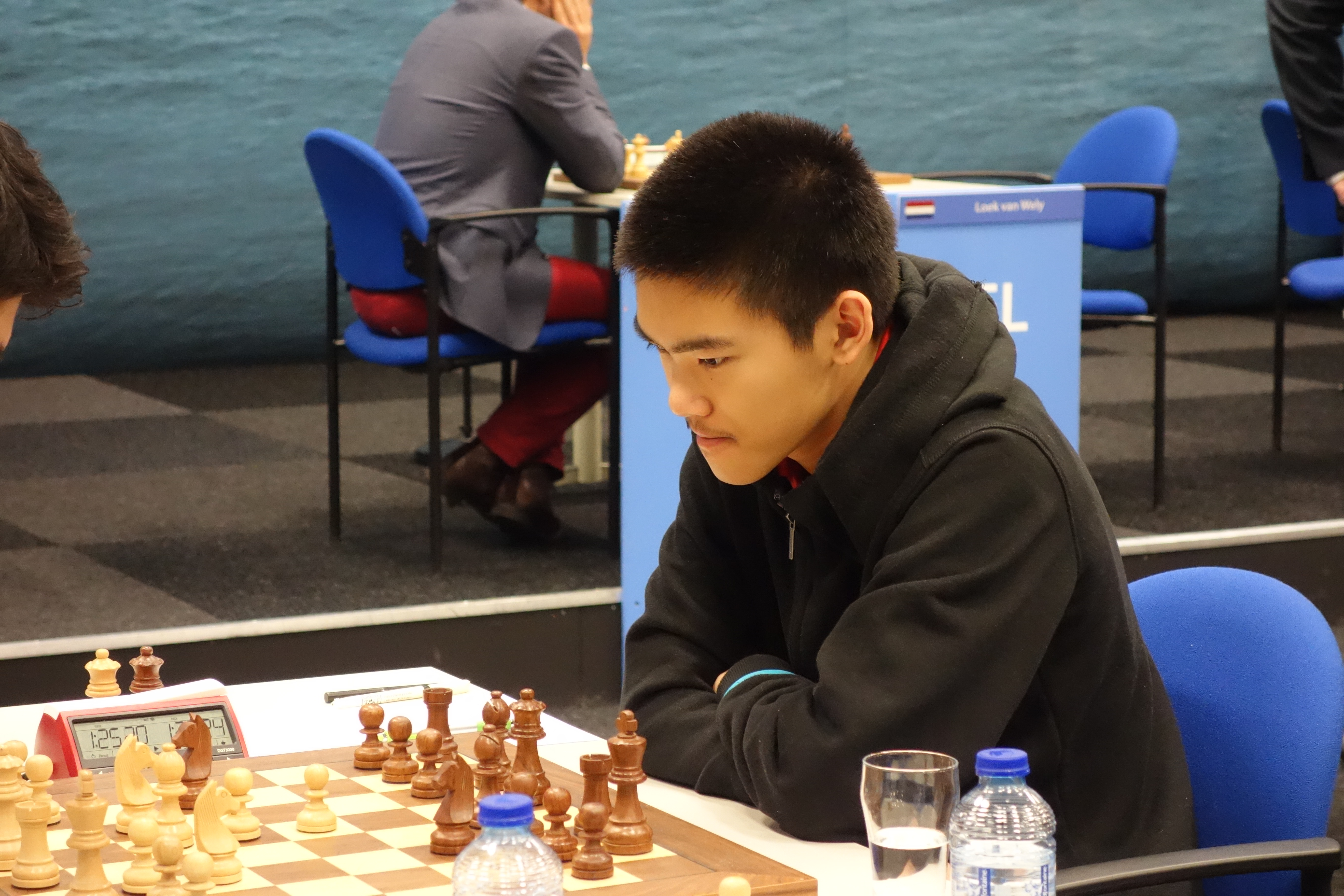 Jeffery Xiong, Tata Steel Chess Tournament 2017, Wijk aan Zee (the Netherlands), 28 January 2017